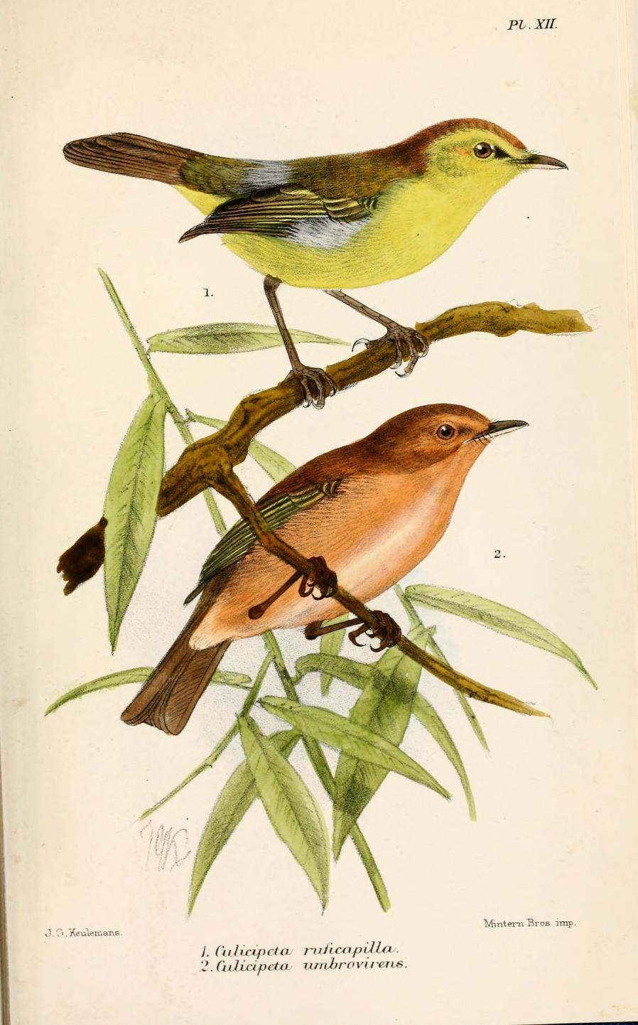 Culicipeta ruficapilla = Phylloscopus ruficapilla, Yellow-throated Woodland-Warbler (above); and Culicipeta umbrovirens = Phylloscopus umbrovirens, Brown Woodland-Warbler (below)